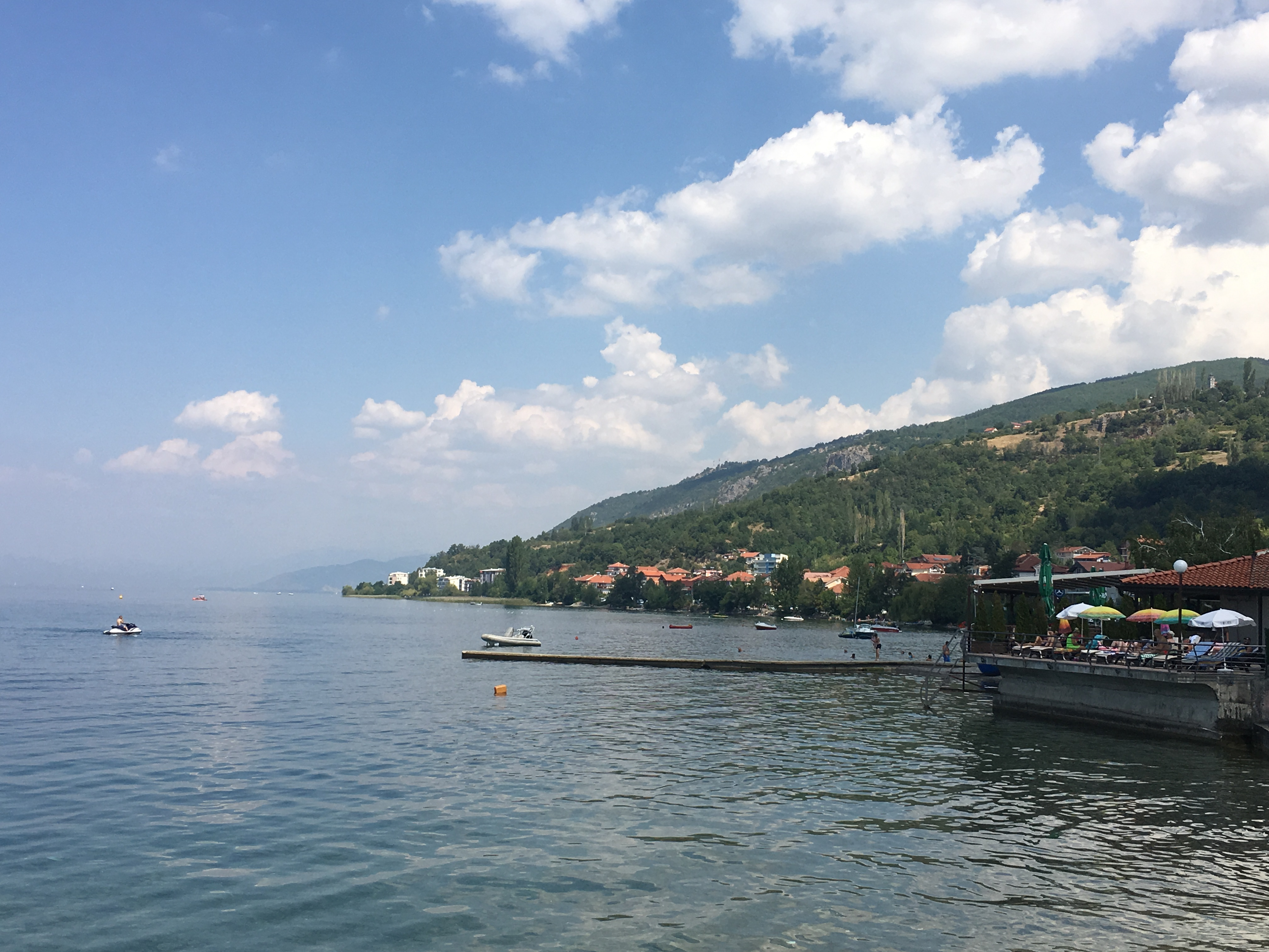 A view of the village of Peštani with Lake Ohrid